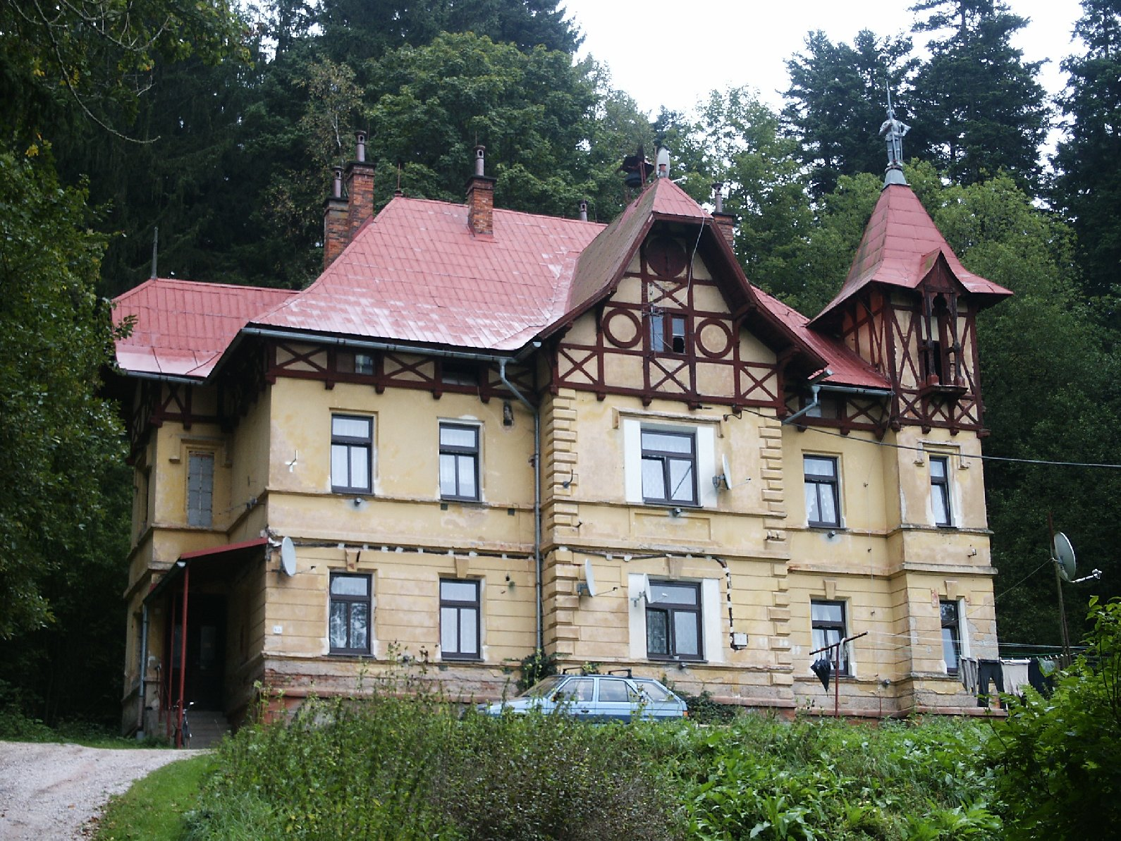 Fořt spa - Forest chateau